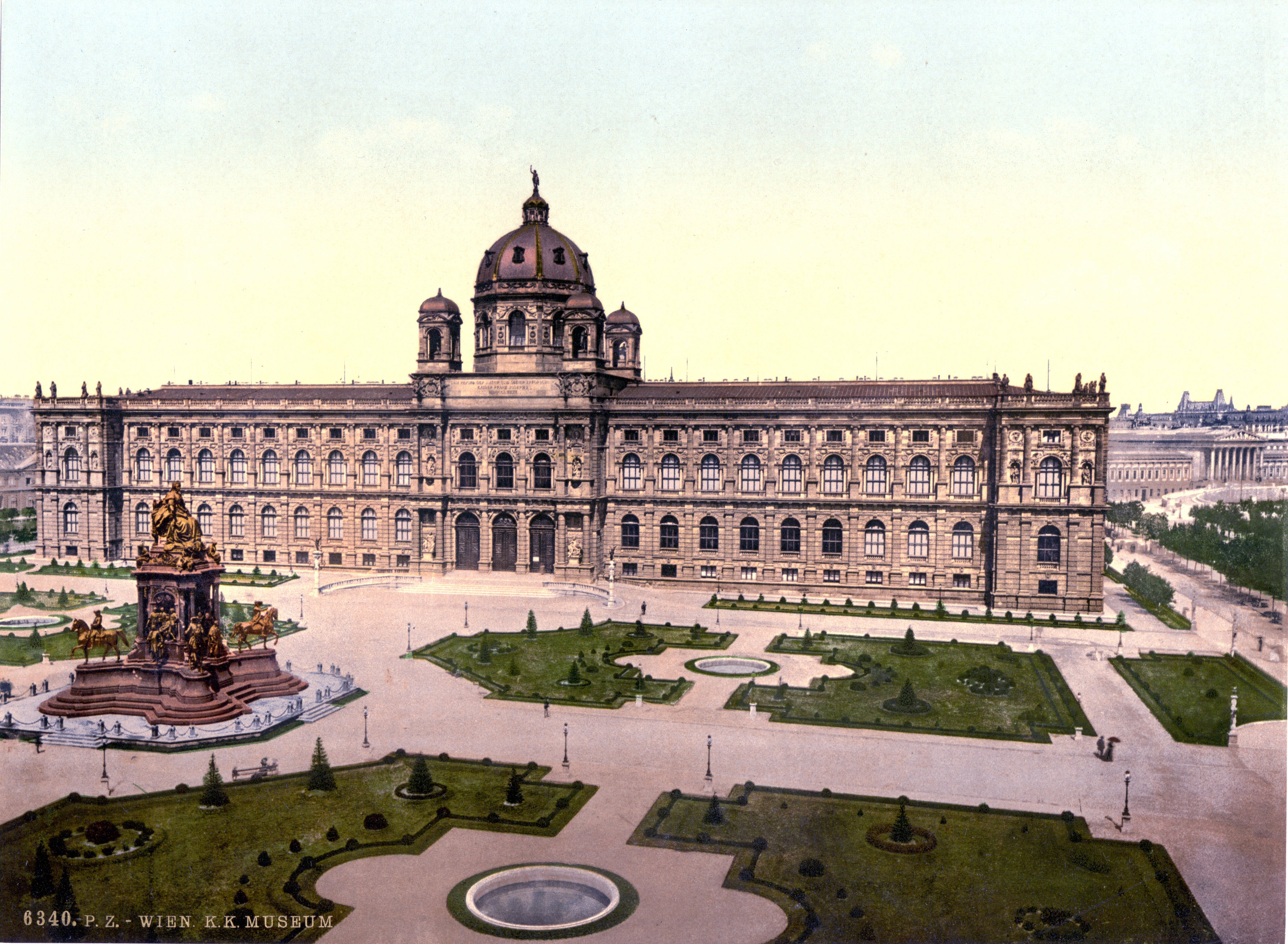 Austria, Vienna, Naturhistorisches Museum